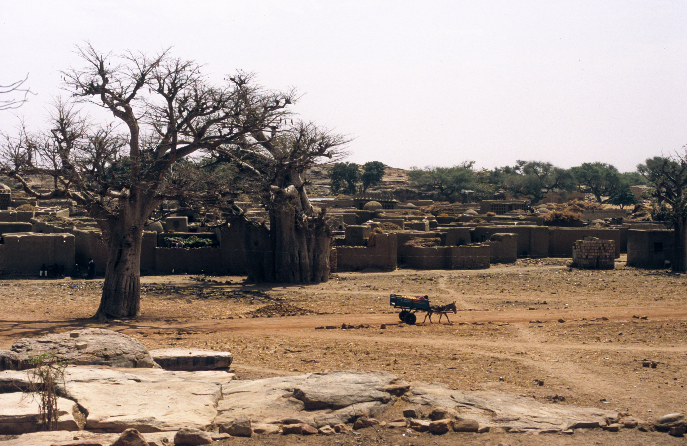 This is an image with the theme "Africa on the Move or Transport" from: Mali